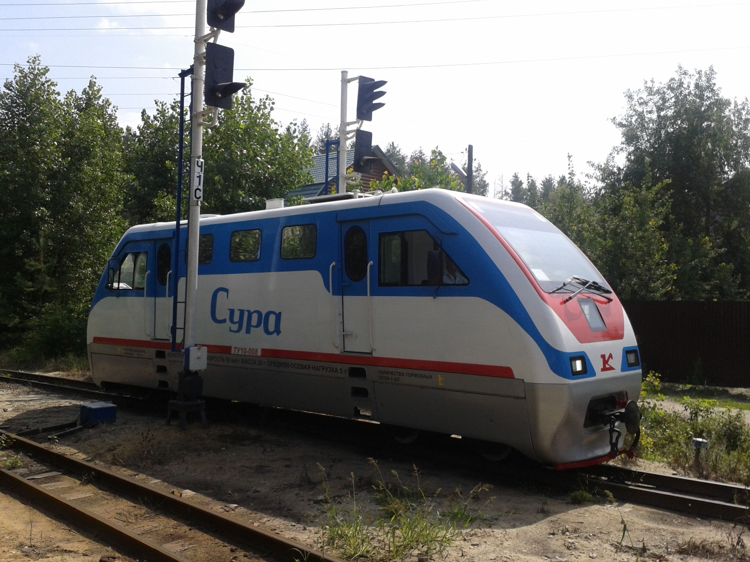 Penza Children's railway